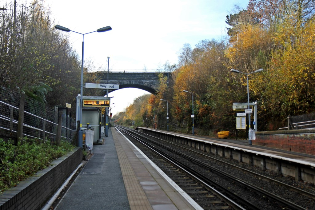 Aughton Park railway station